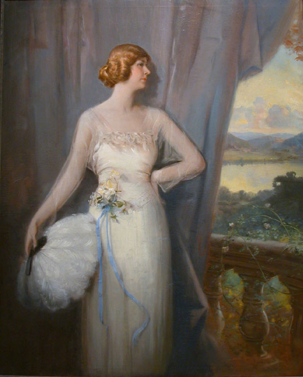 Portrait of Knoxville socialite and preservationist Ellen McClung Berry (1894-1992)